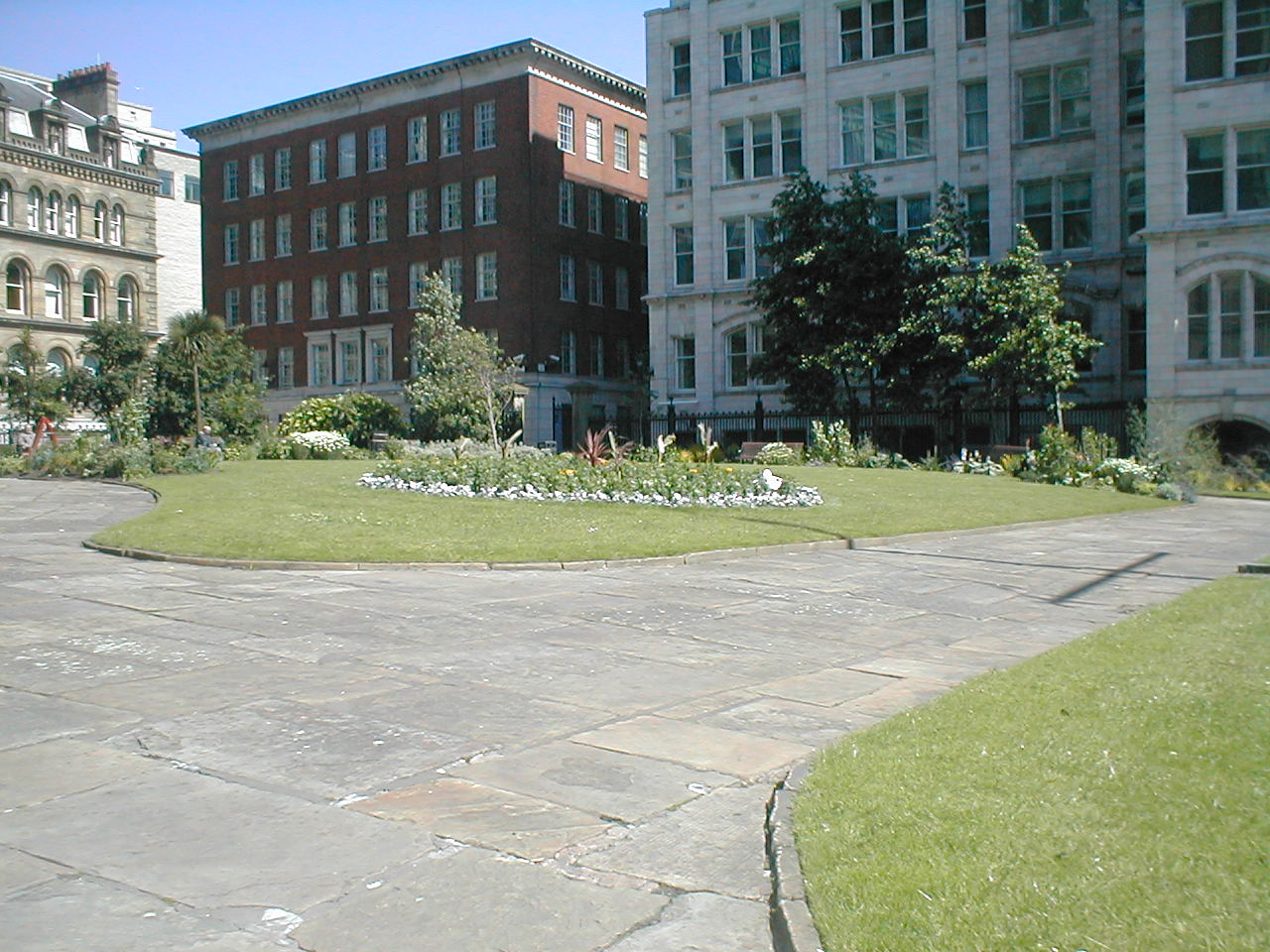 Public gardens of St Nick's, Liverpool.